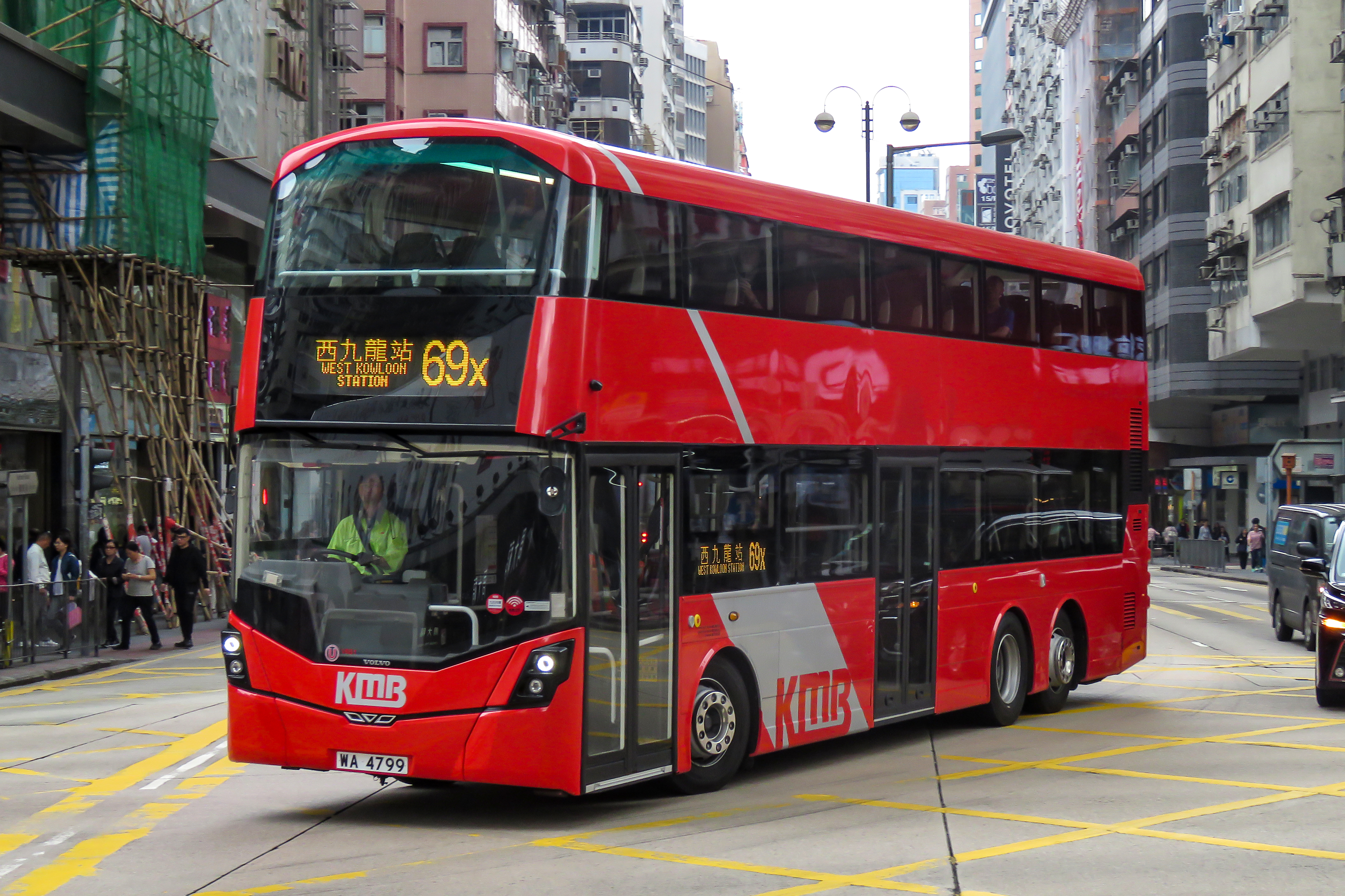 This "red diamond" appeared in Mei Foo at 12:17, and arrived here at 12:40.